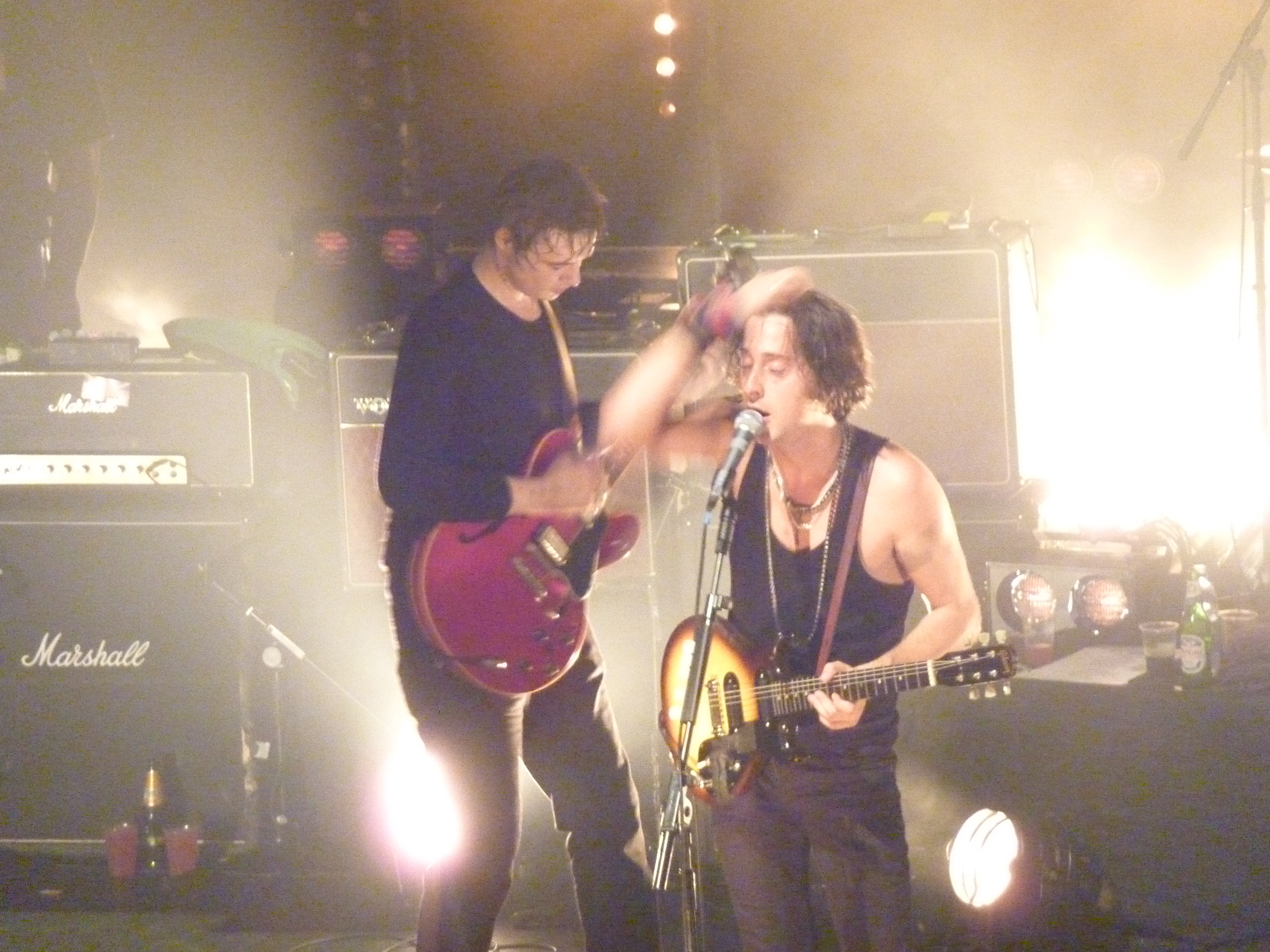 The Libertines at HMV Forum